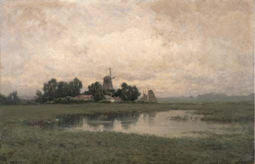 Near Dordrecht, 61,3 x 91,4 cm (24,1 x 36 in)